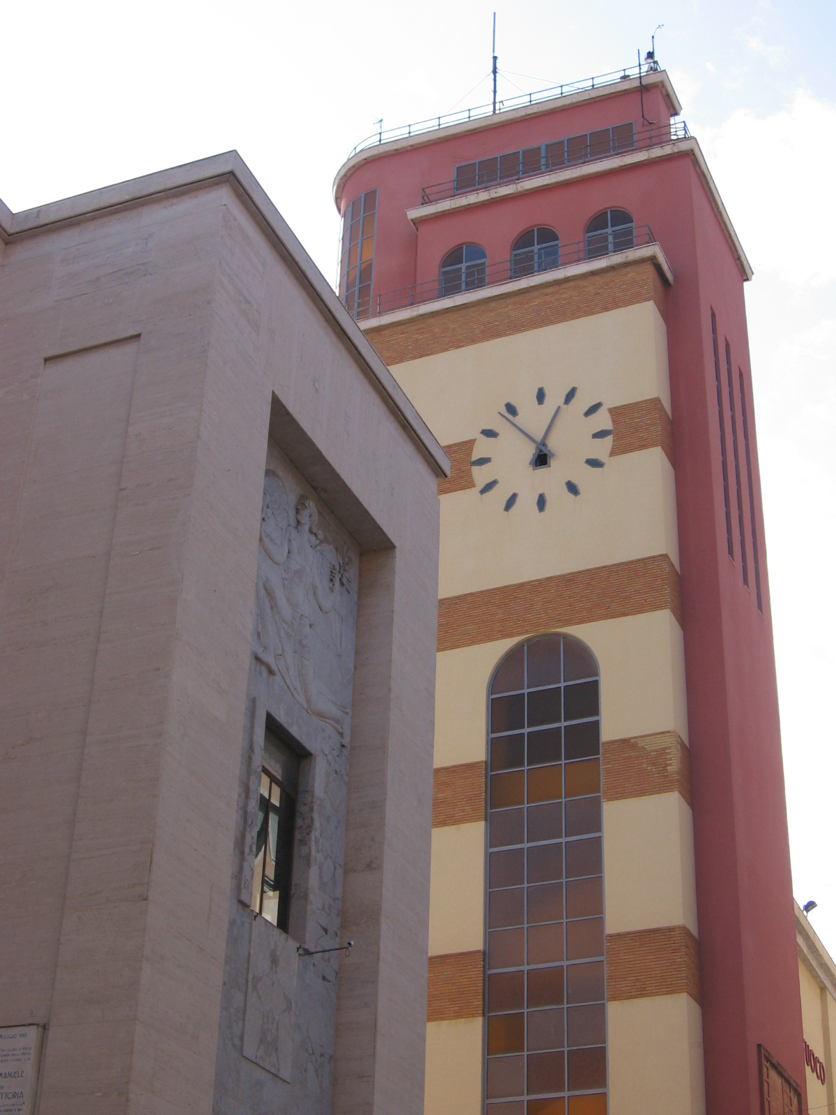 Palermo (Italy) Fire Station, 1935-1937, Antonino Pollaci Architect.